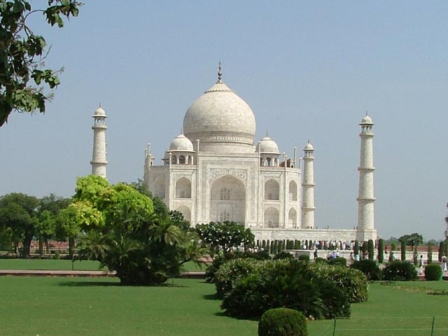 My lens view !!